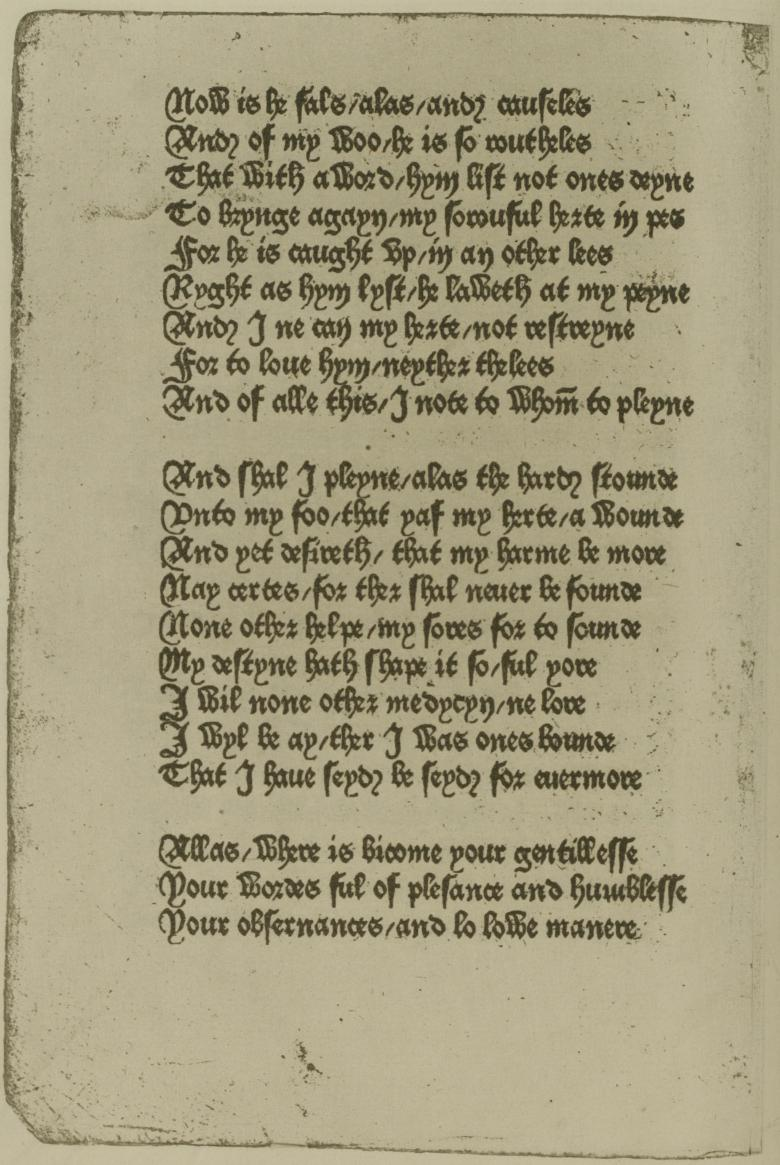 Original Chaucer manuscript of Anelida and Arcite